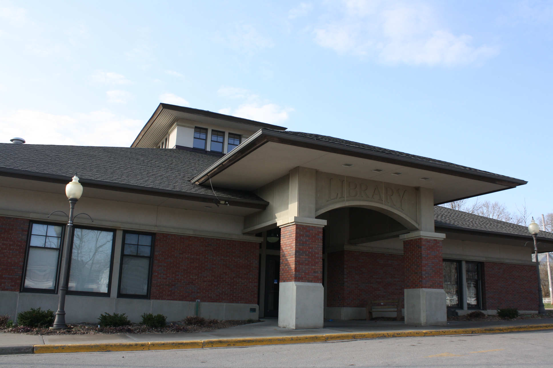 The current library in Black River Falls, Wisconsin.